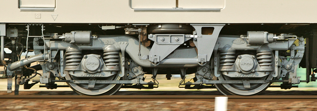 Kinki Sharyo Type KD93A truck of 3200 series EMU.